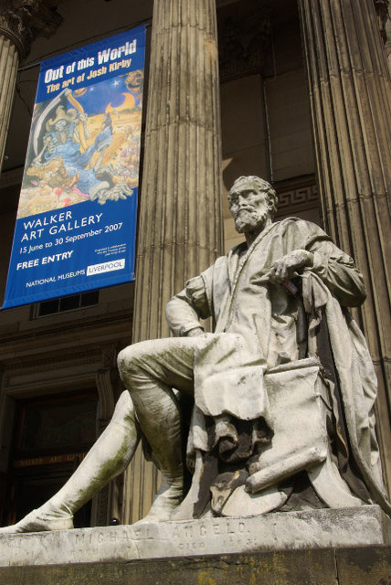 Walker Art Gallery, Liverpool A statue of Michaelangelo guards the front entrance to the Walker Art Gallery, which is hosting a Josh Kirby exhibition.